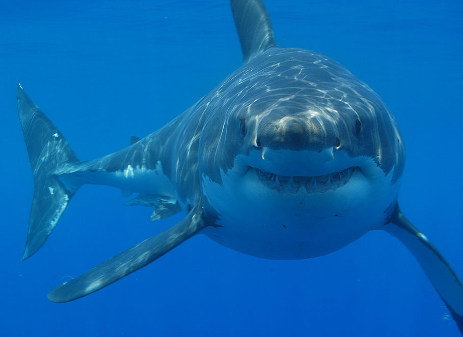 Great white shark (Carcharodon carcharias) off South Africa